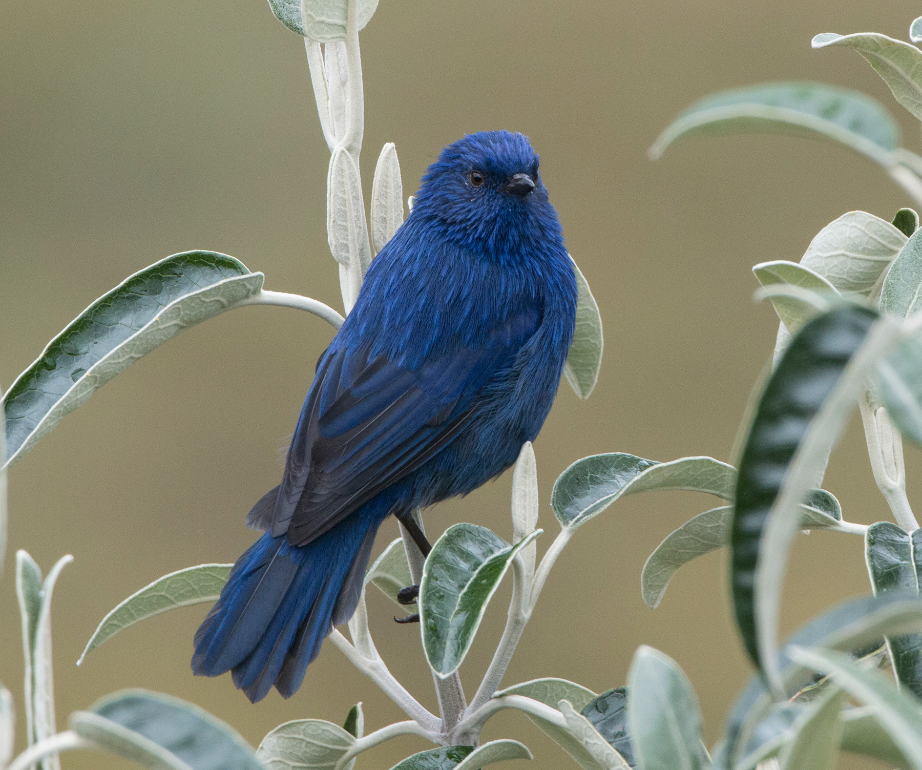 Tit-like-dacnis, Cajas National Park, Ecuador